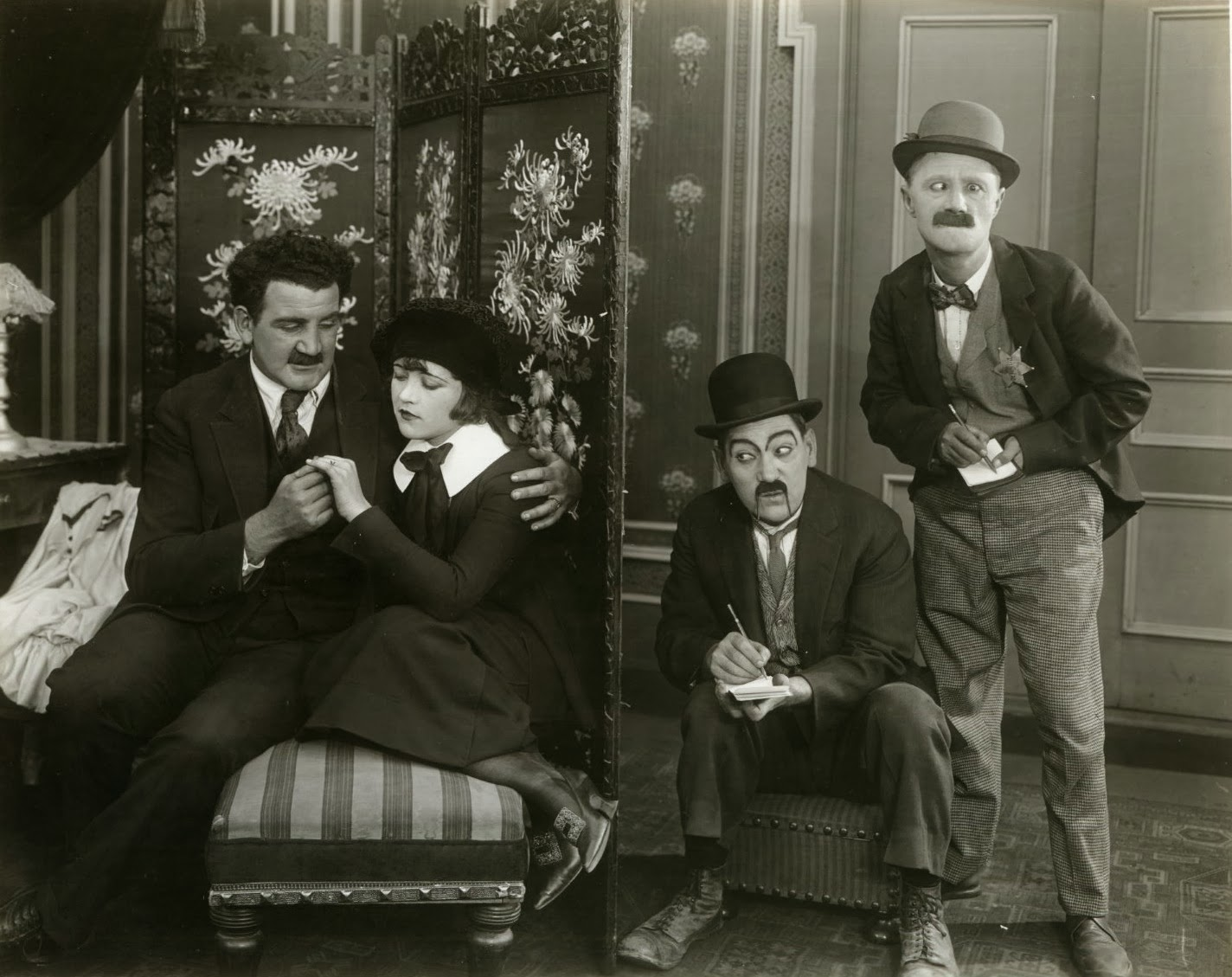 L. to R. : Tom Kennedy, Marie Prevost, Heinie Conklin (aka Charles Lynn) & Ben Turpin in the short comedy Hide and Seek, Detectives - publicity still